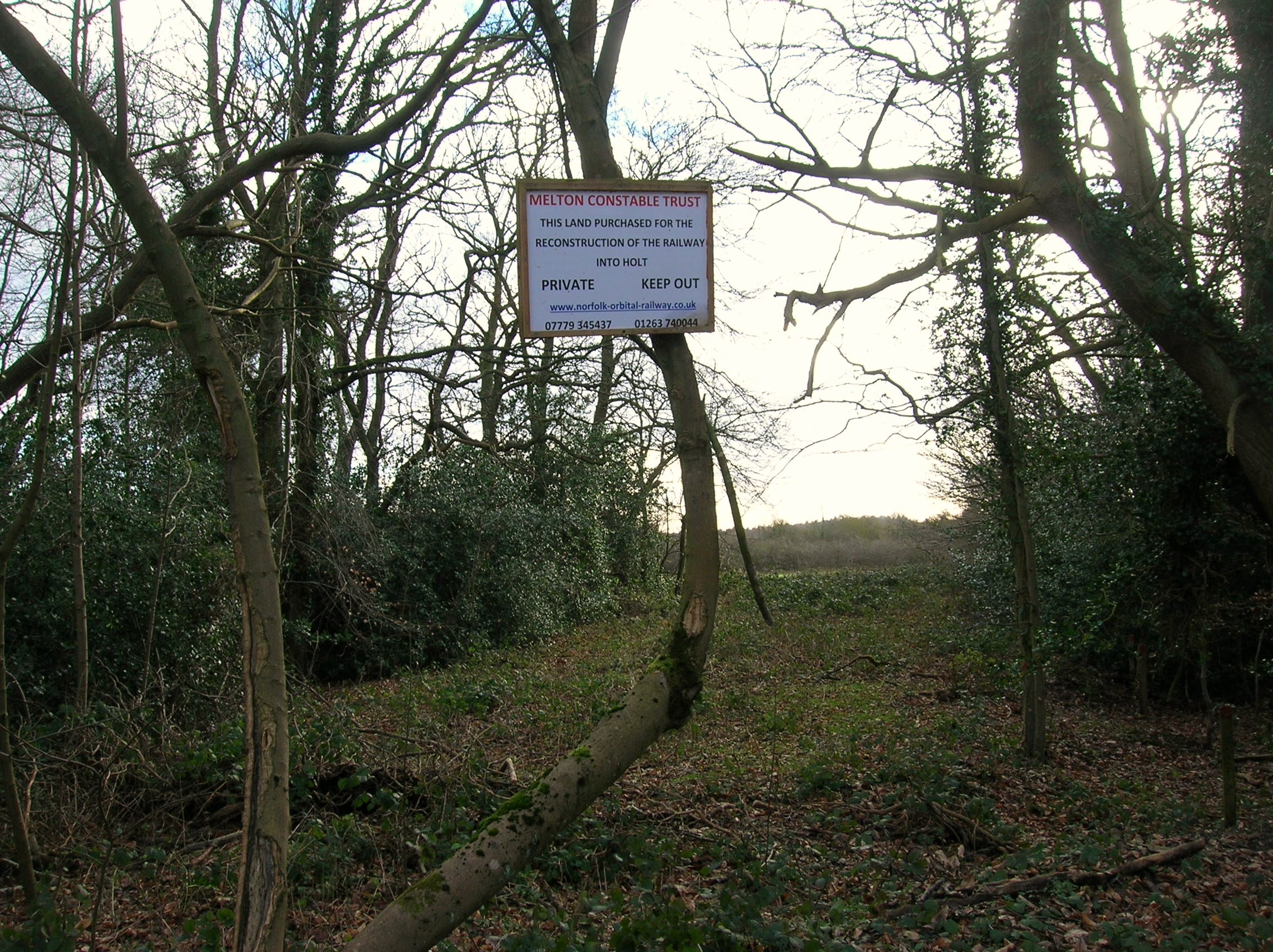 The 50 yards of trackbed that constitute the physical Norfolk Orbital Railway, complete with signage.